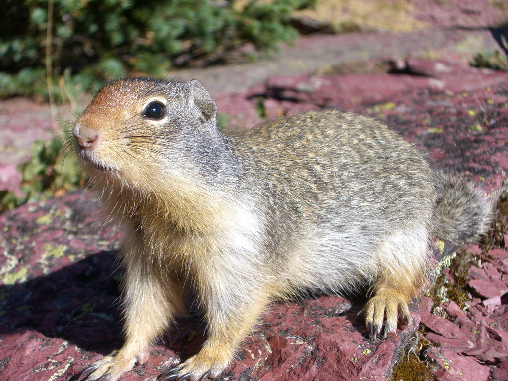 Spermophilus columbianus - Columbian ground squirrels - Spermophile de Colombie